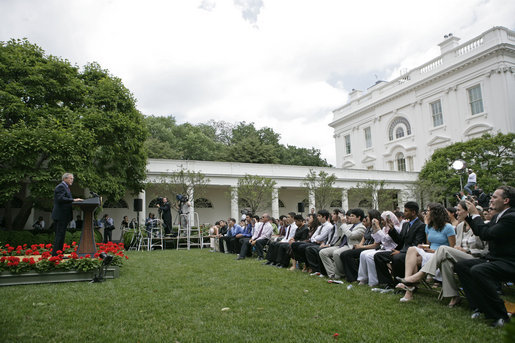 President George W. Bush addresses 200 exchange students from the program in the Rose Garden of the White House. Living with host families for one year, the students come from mostly Muslim countries.In the background, on the rigt the Executive Residence and in center the West Colonnade.